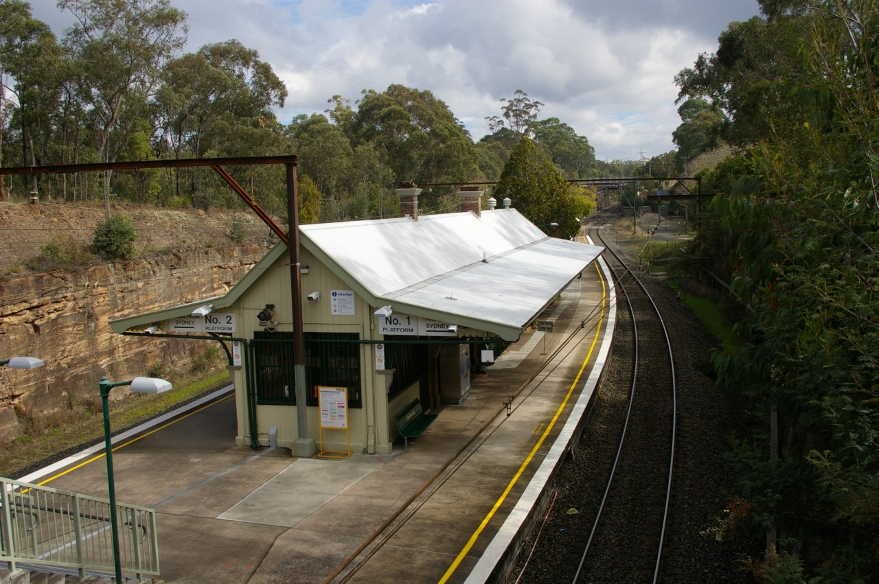 This image was created by me. It shows the Glenbrook Railway Station.